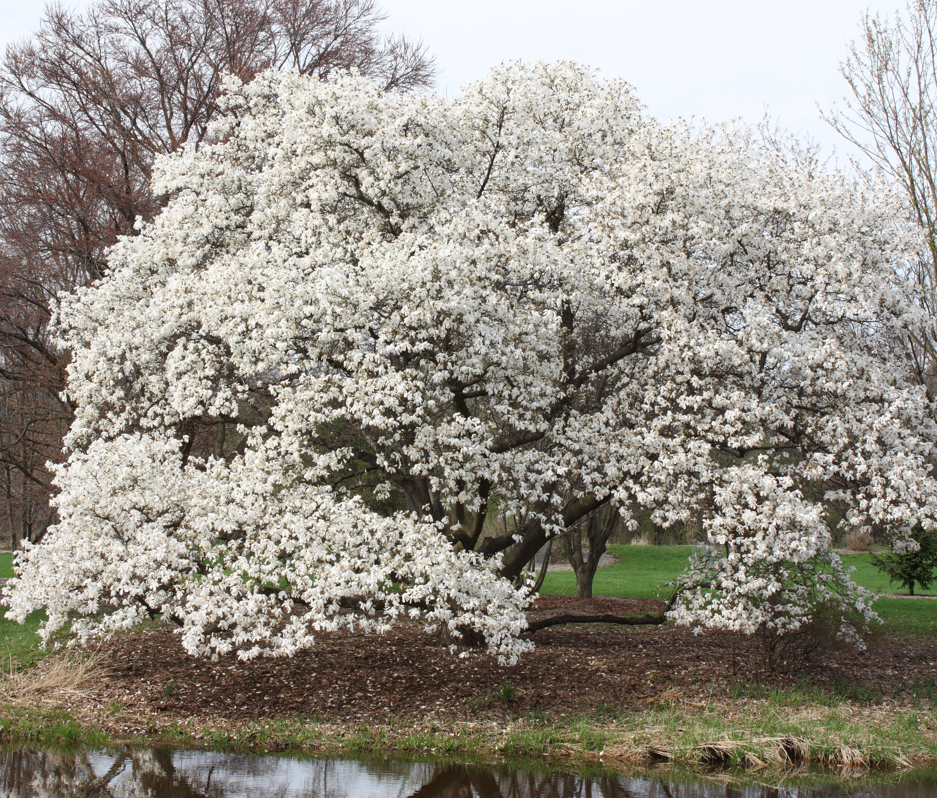 Magnolia kobus var.borealis, Morton Arboretum acc. 532-52-1